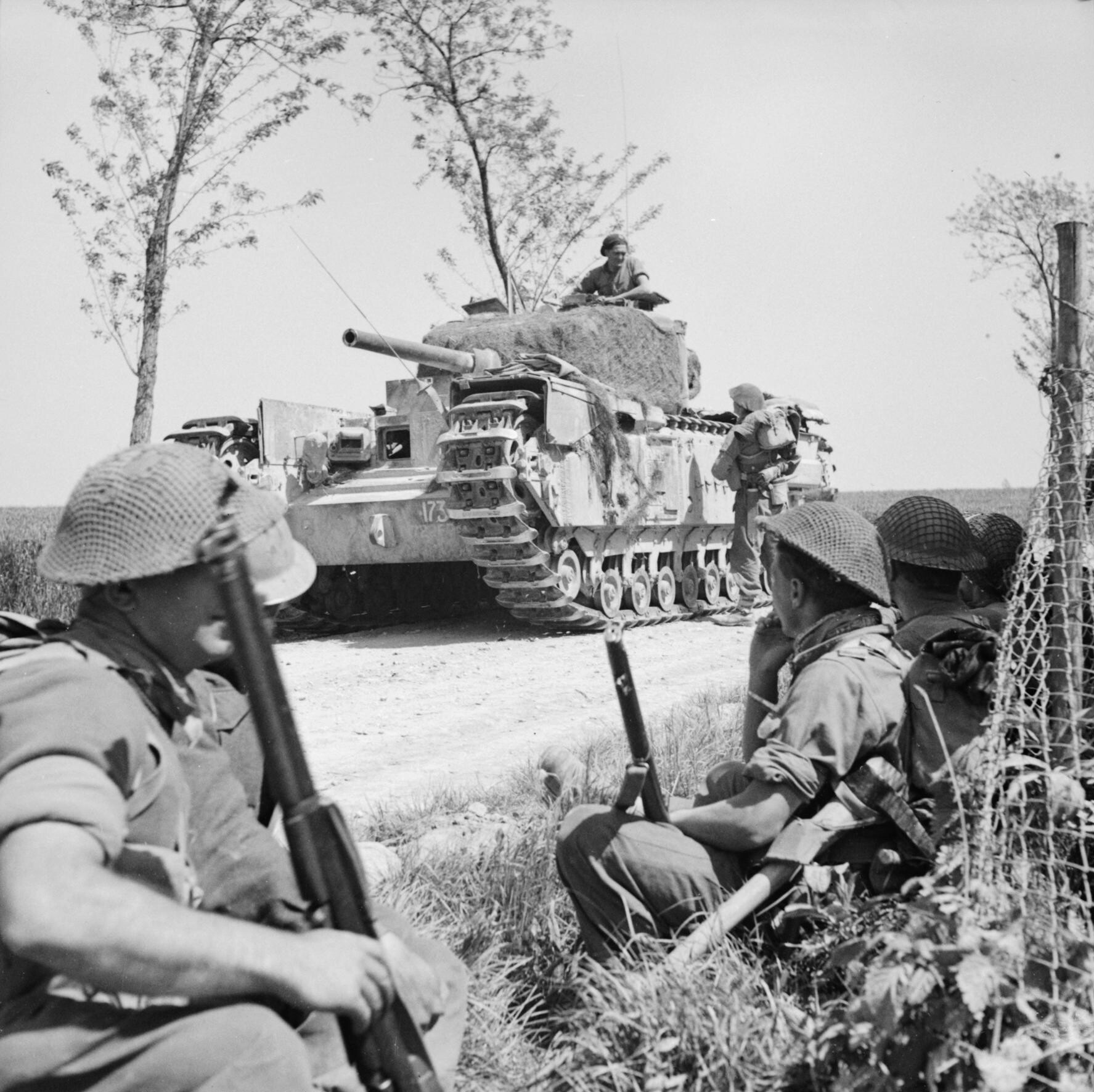 A Churchill tank halts near infantry of the 1st London Irish Rifles near Tanara during the advance to the River Po, Italy, 23 April 1945. A Churchill tank halts near infantry of the 1st London Irish Rifles near Tanara during the advance to the River Po, 23 April 1945.